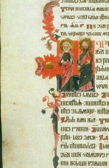 Part of an illuminated missal by Bartol Krbavac